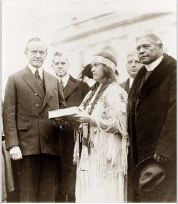 President Calvin Coolidge presented with a book written by G. E. E. Linquist titled "The Red Man In The United States" (1919). Ruth Muskrat-Bronson (center) making the presentation on behalf of the “The Committee of One Hundred” with Rev. Sherman Coolidge (right). Other information No. This work is in the public domain because it was published in the United States between 1923 and 1963 and although there may or may not have been a copyright notice, the copyright was not renewed. Unless its author has been dead for the required period, it is copyrighted in the countries or areas that do not apply the rule of the shorter term for US works, such as Canada (50 pma), Mainland China (50 pma, not Hong Kong or Macao), Germany (70 pma), Mexico (100 pma), Switzerland (70 pma), and other countries with individual treaties. See Commons:Hirtle chart for further explanation.